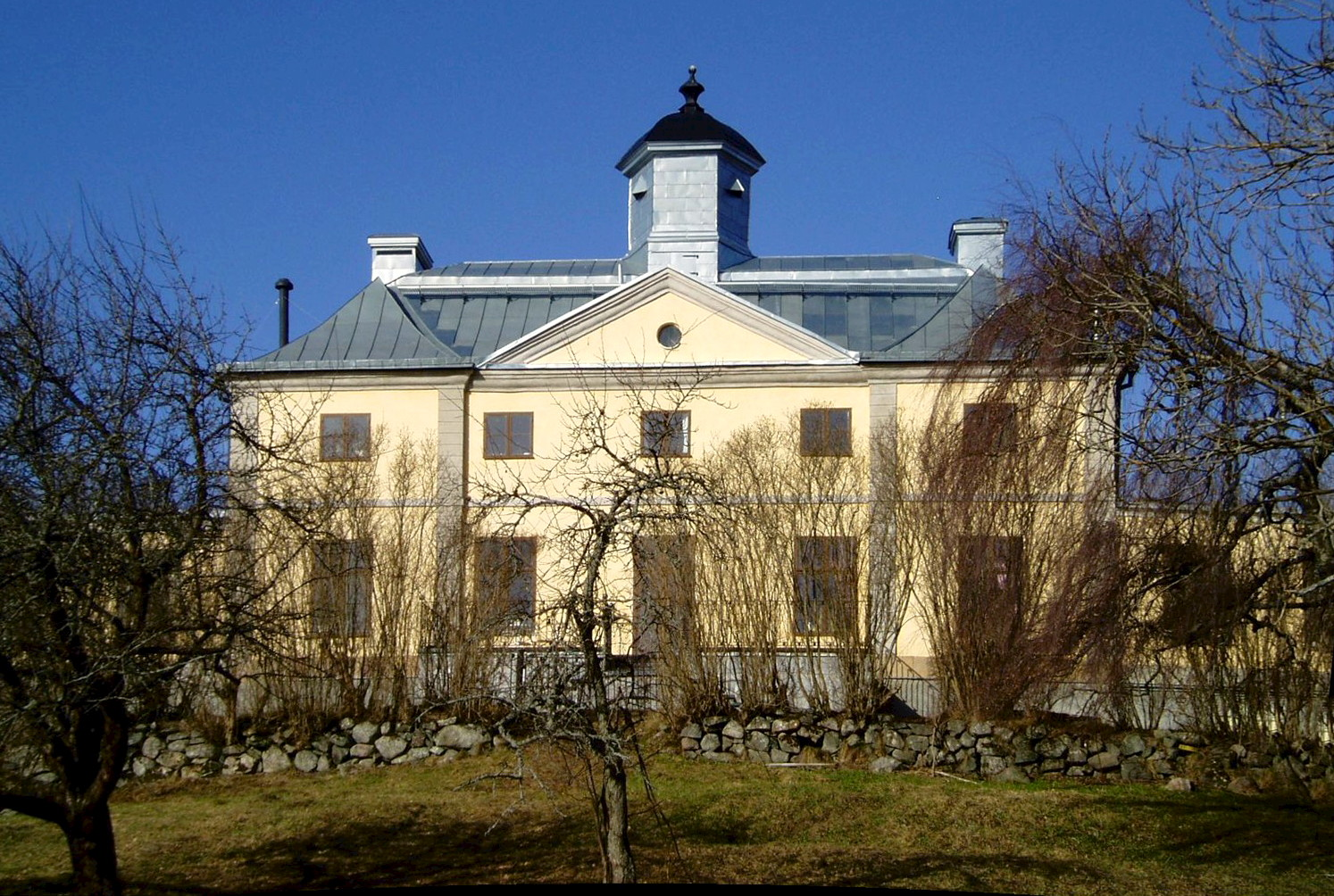 Säby mansion, Järfälla municipality, Sweden